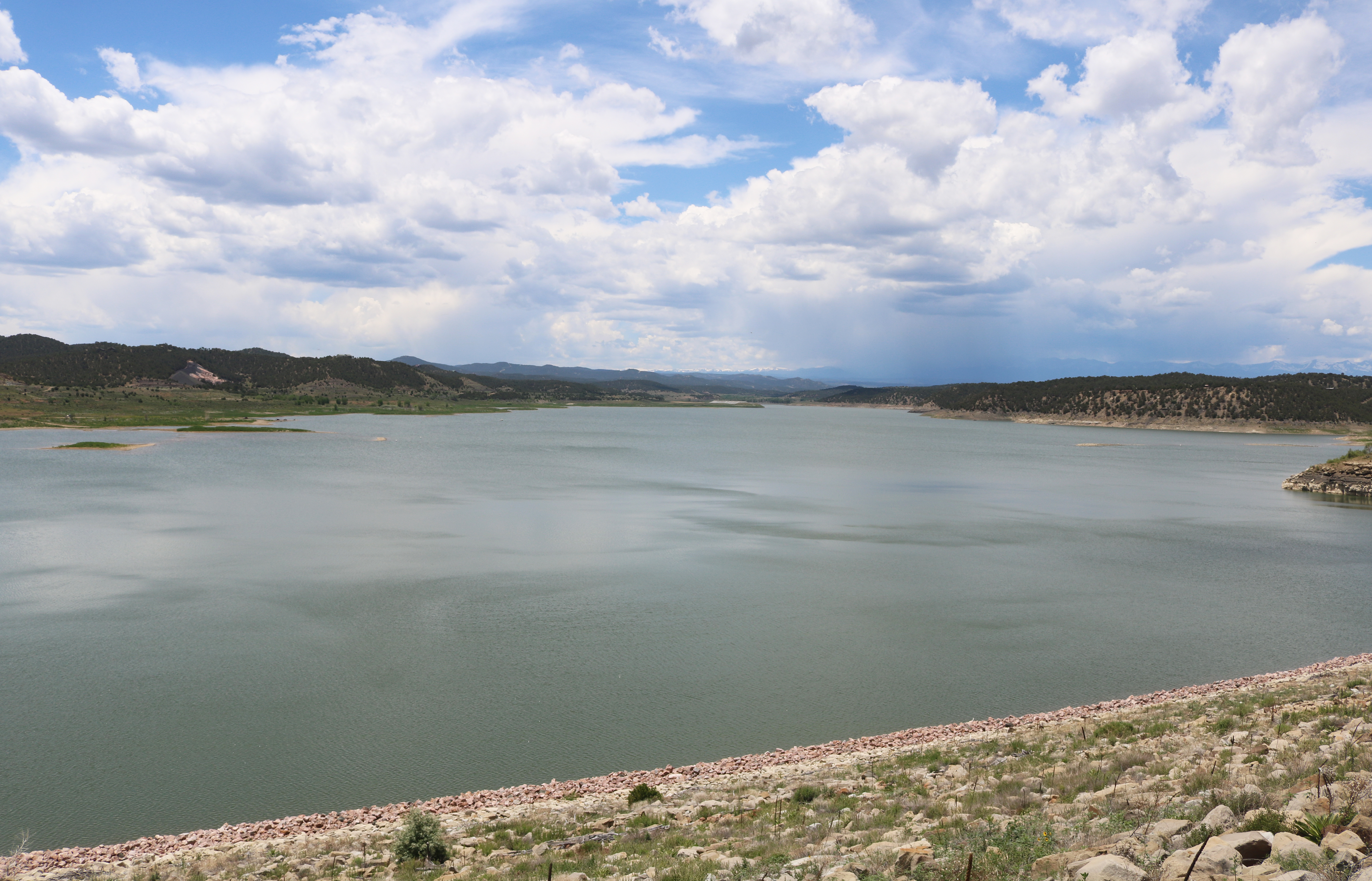 A view of Trinidad Lake State Park and Trinidad Lake from the top of the dam, looking west. The dam impounds the Purgatoire River.